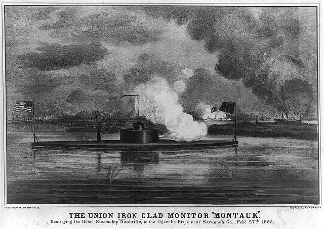 The Union iron clad monitor "Montauk": destroying the Rebel steamship "Nashville," in the Ogeeche River, near Savannah Ga. Feby. 27th. Currier & Ives., 1863. Library of Congress Prints and Photographs Division